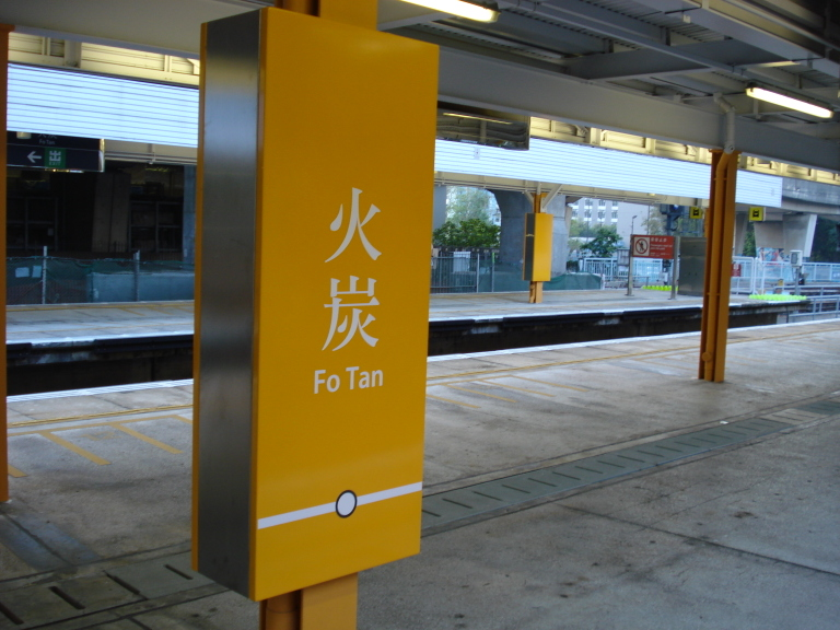 Fo Tan station in Hong-Kong